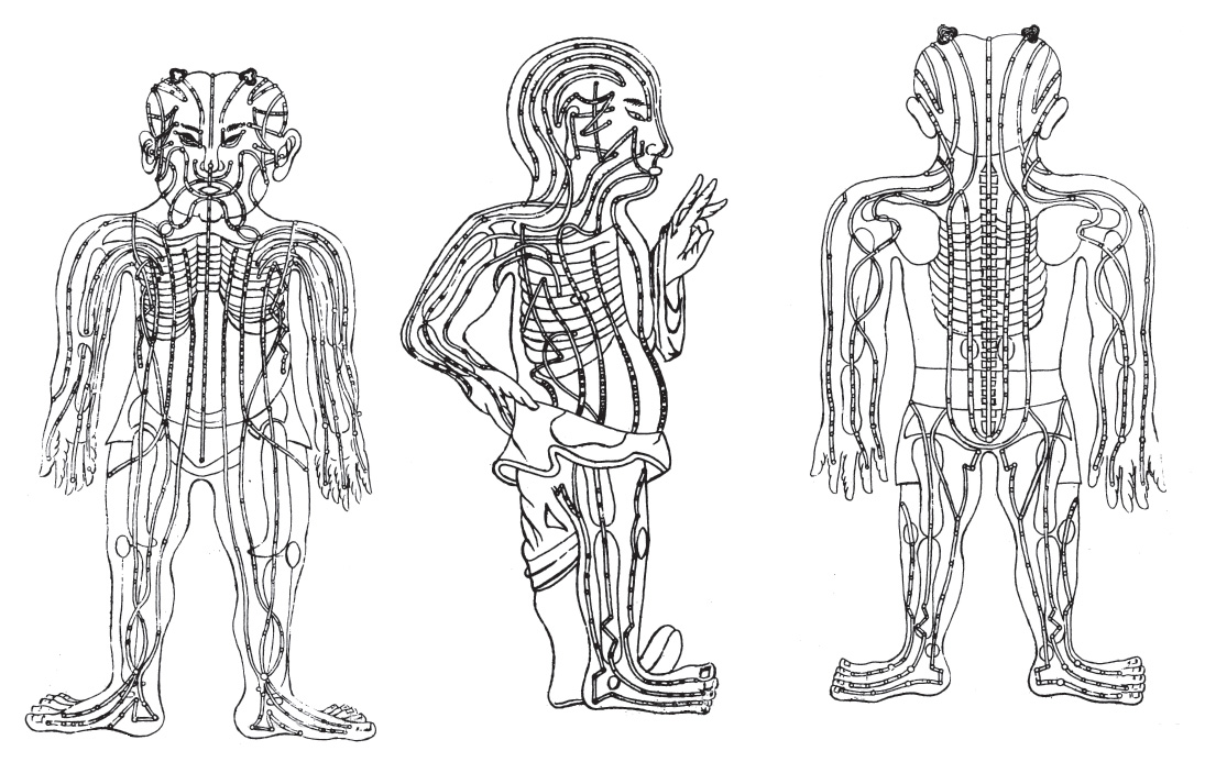 Andreas Cleyer illustrations of the book (Specimen Medicinae Sinicae), edited to conventional modern maps of acupuncture meridians